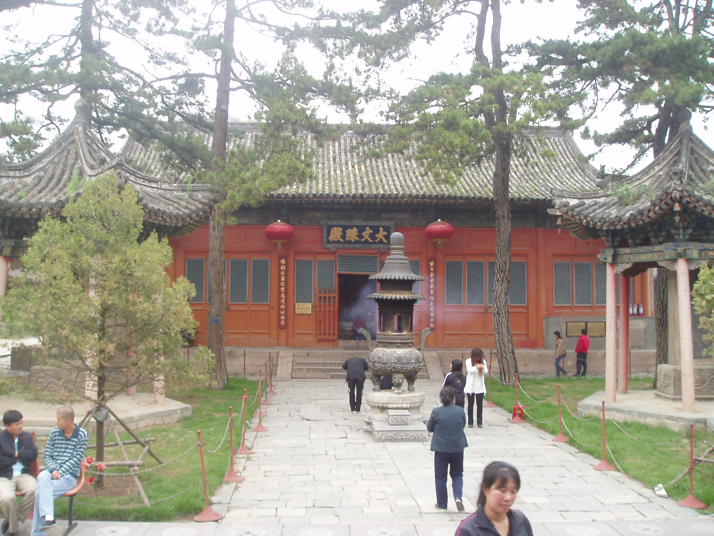 Dawenshu Hall in the Xiantong Temple, Wutaishan, China.